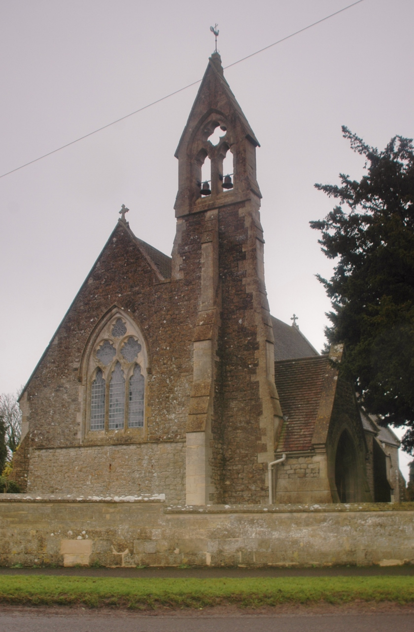 Parish church of St James, Bourton, Vale of White Horse, Oxfordshire (formerly Berkshire), seen from the southwest